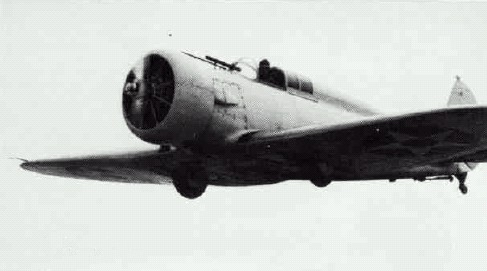 The Boeing XF7B-1 prototype in flight. It made its first flight in September 1933.